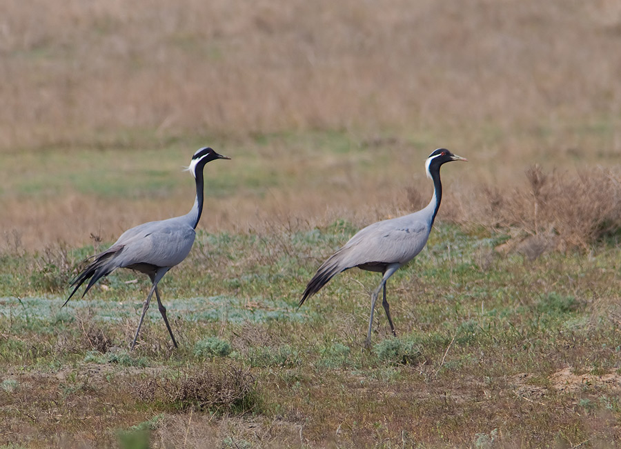 Demoiselle Crane. Volgograd Region.